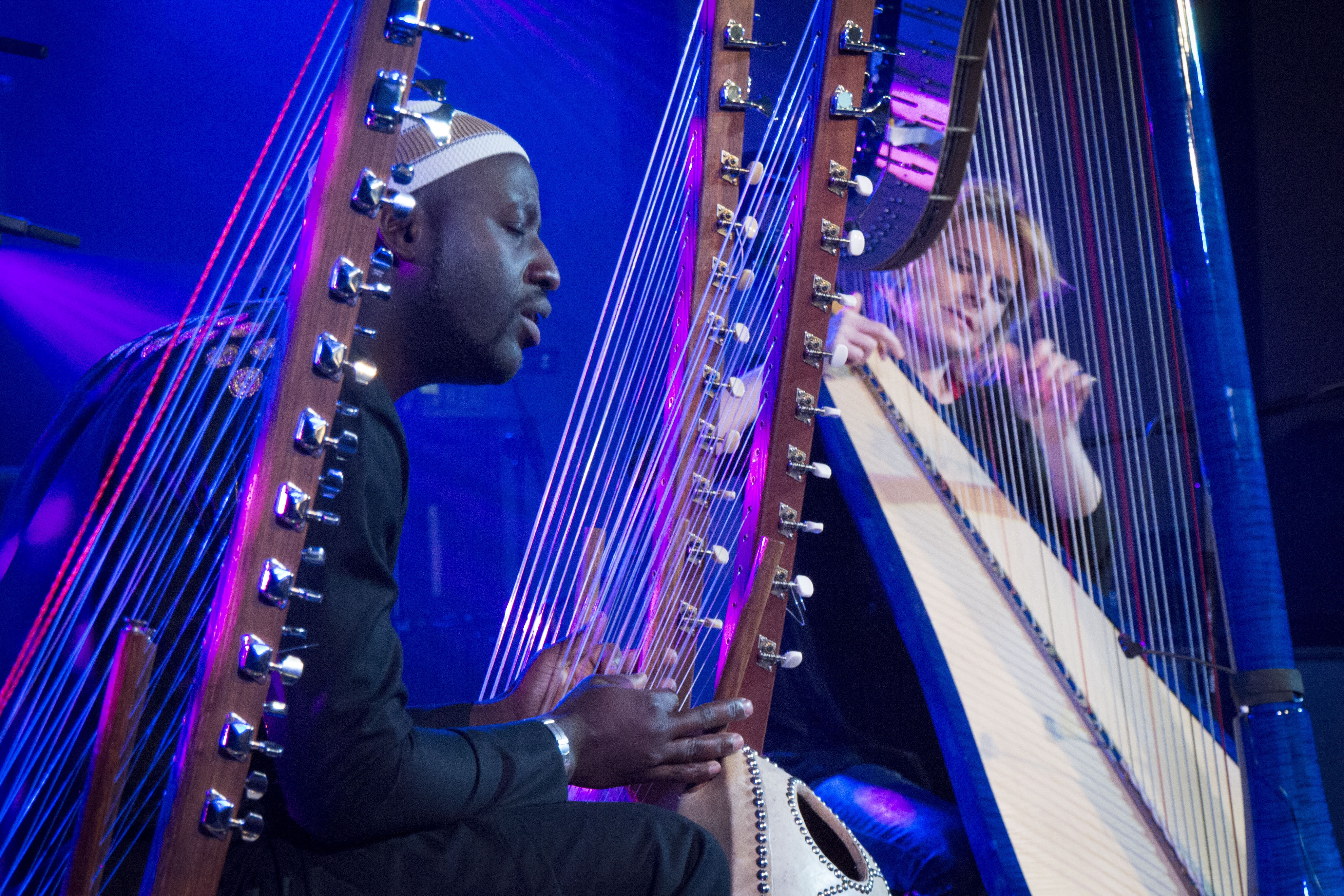 Musicport 2014